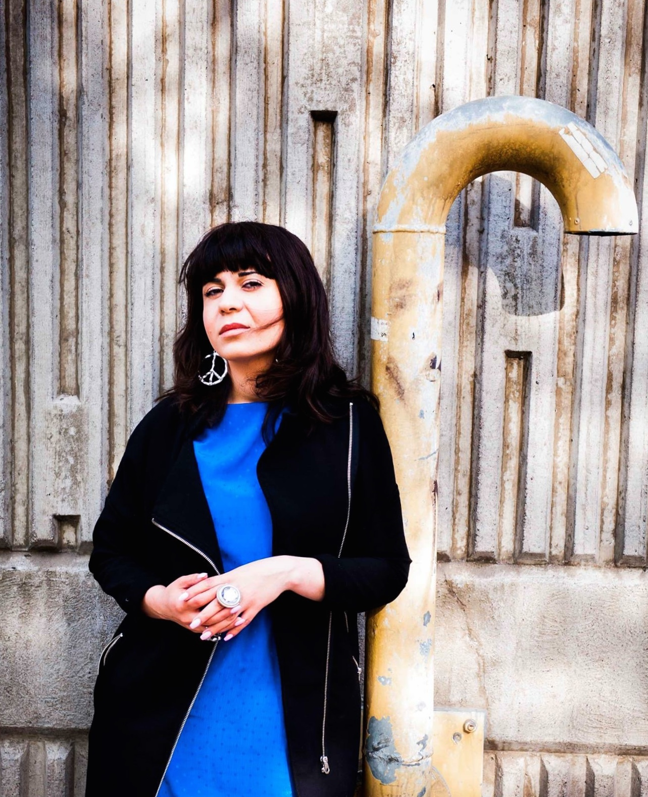 Sarah Delshad 2016